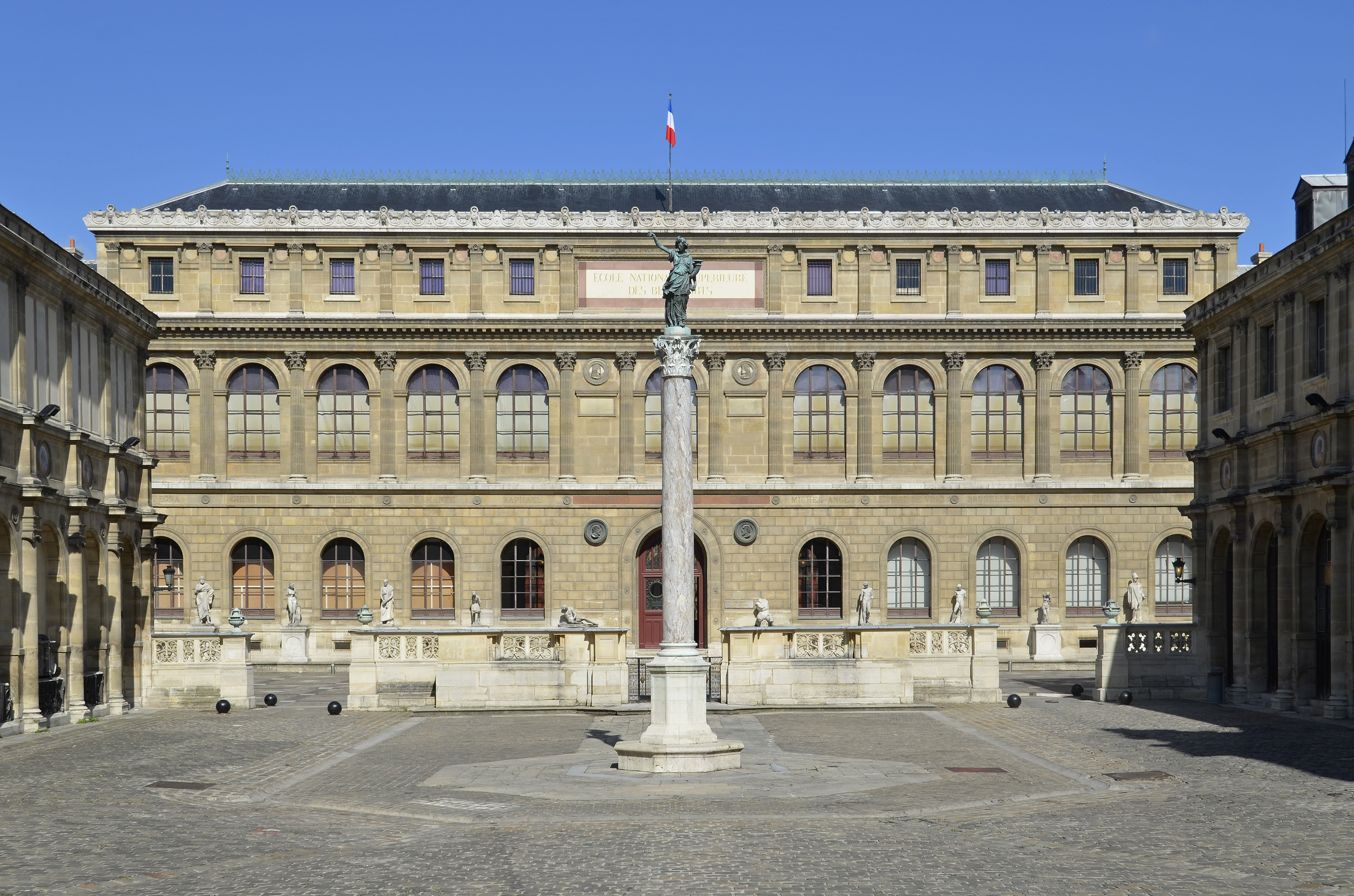 The Palais des Études in École nationale supérieure des Beaux-Arts - Bonaparte street, 14 - 6th arrondissement of Paris